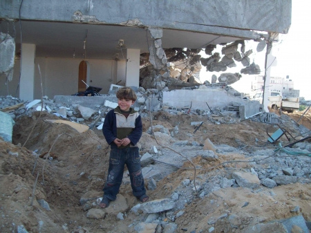 I have just come from Jabalia, and I have no words. I do however have pictures. These came from the Azbet area, and cover a space that would take 15 minutes at a brisk walk. But the devestation stretches as far as the eye can see. The estimate is 6-8000 houses in Gaza damaged, and 5000 completely destroyed.